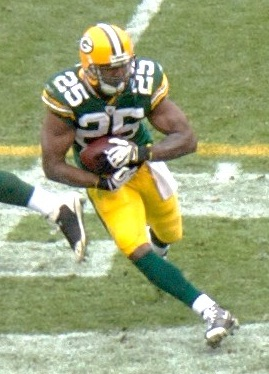 Ryan Grant takes a handoff from Aaron Rodgers